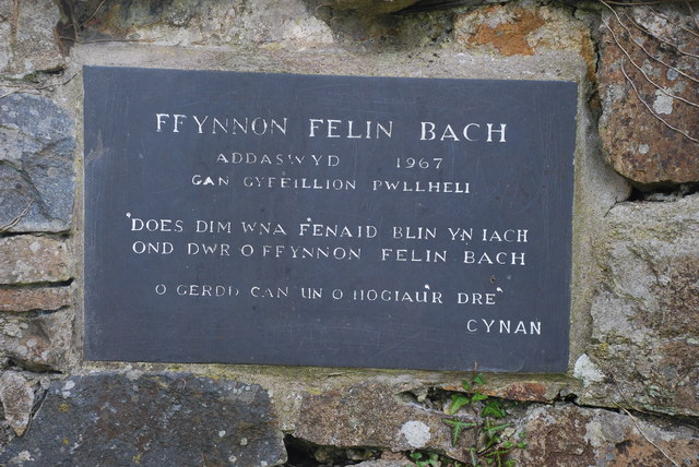 Ffynnon Felin Bach Does dim wna f’enaid blin yn iach Ond dŵr o Ffynnon Felin Bach All that heals my weary soul is water from Ffynnon Felin Bach The words are from the poetry of Albert Evans Jones whose bardic name was Cynan